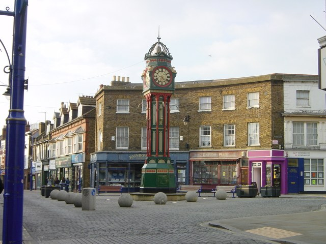 The Clock Tower, Sheerness At the junction of the High Street and Broadway. The foundations of the clock tower were laid on June 26th 1902.